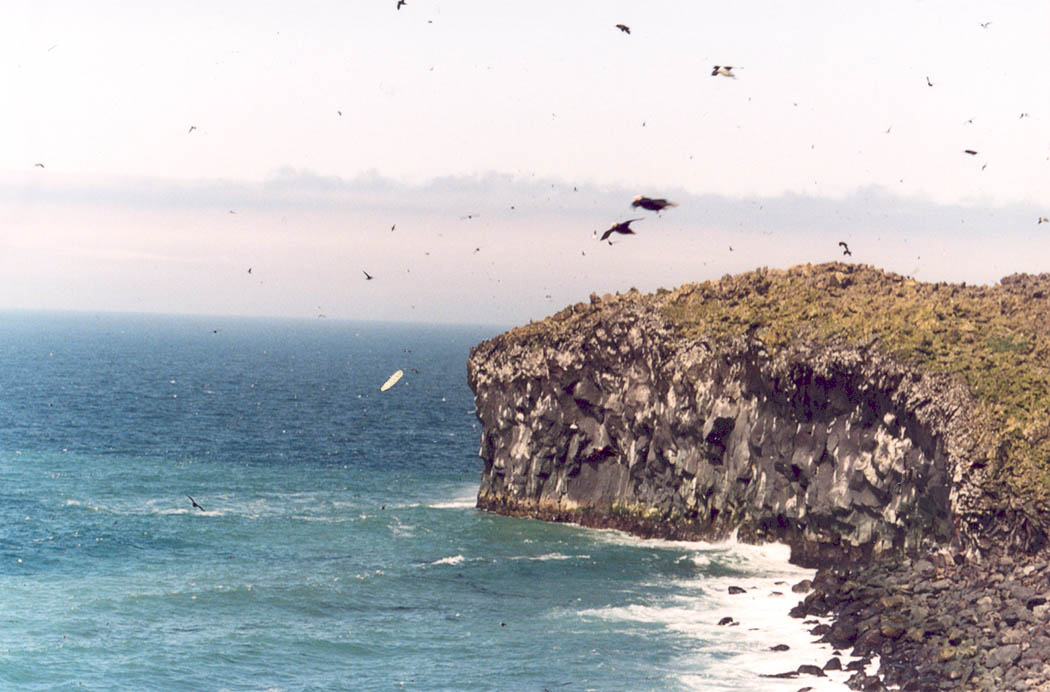 Kenyon Dome of basalt columns, Bogoslof Island